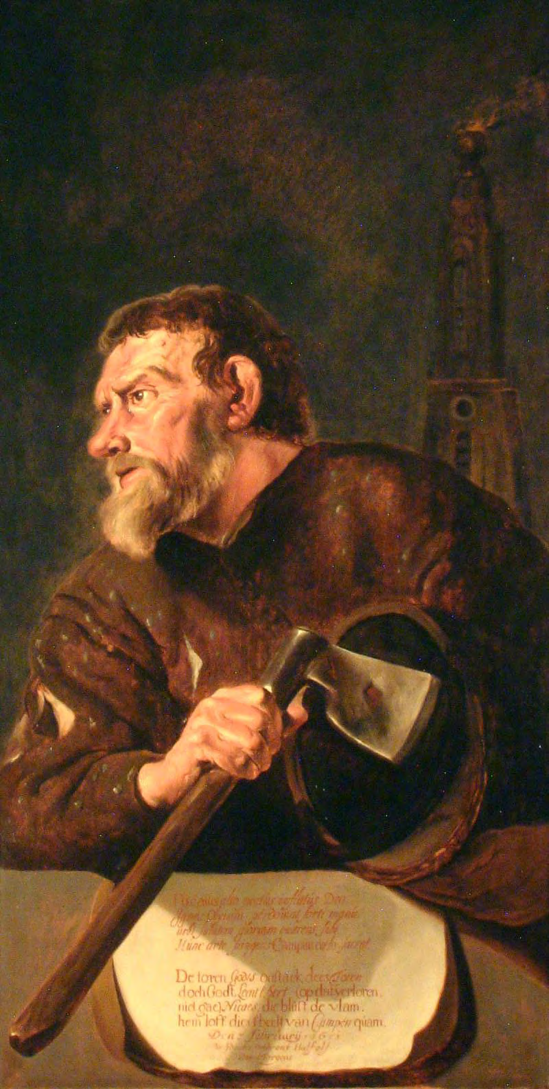 Lenaert Nicasius, oil painting by Jacob van Campen